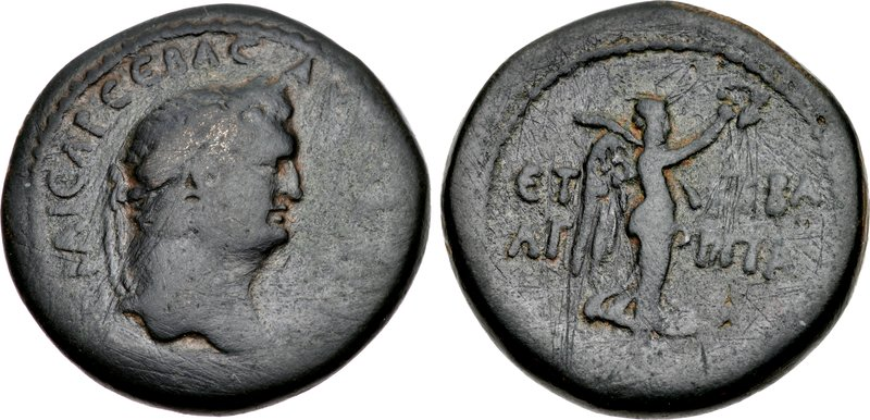 Judaea, Roman Administration. Agrippa II, with Titus. Circa 50-100 CE. Æ (28mm, 13.65 g, 12h). Caesarea Paneas mint. Dated RY 26 (74/5 CE) of Agrippa II’s first era. ΚΑΙΣΑΡ ΣΕΒΑΣ ΑΥΤΟΚΡ ΤΙΤΟΣ Laureate head of Titus right Nike advancing right, holding palm and wreath; ЄT Kς (date) & BAC ΑΓΡΙΠΠΑ across field. From a Continental Collection, acquired in 1975.